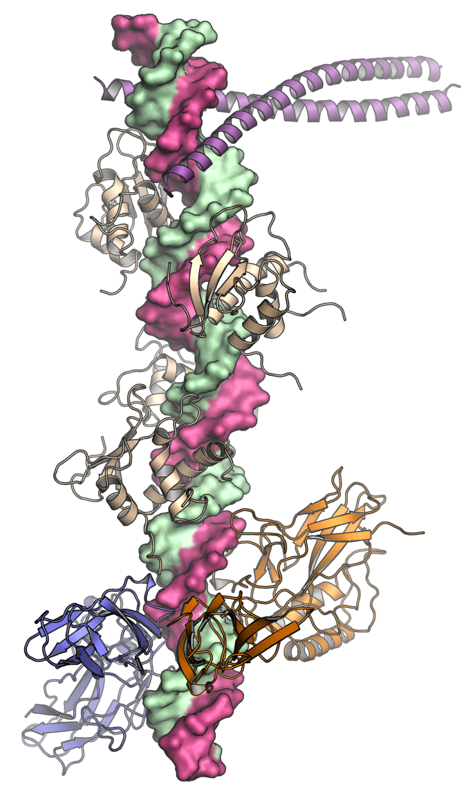 Model of the enhanceosome protein assembly on double-stranded DNA. Coordinates from the RSCB PDB Molecule of the Month entry: supplied by Daniel Panne. DNA: green/pink strands ATF-2/c-Jun coiled-coil DNA-binding domain: purple Interferon response factors: beige NF-kappa-B p105 subunit: orange NF-kappa-B p65 subunit: blue